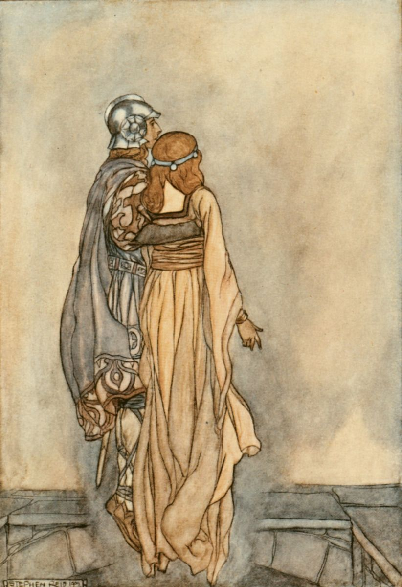 "They rose up in the air" The High Deeds of Finn and other Bardic Romances of Ancient Ireland, by T. W. Rolleston, et al, Illustrated by Stephen Reid